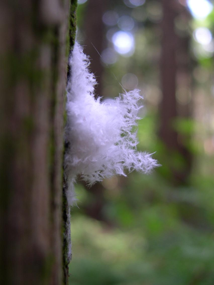 Parasite moth Epipomponia nawai (Lepidoptera:Epipyropidae). A fresh cocoon on the trunk of a Japanese cedar. Yokohama, kanagawa, japan.